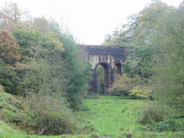 Thirlmere aqueduct Water from the Lakes to Manchester